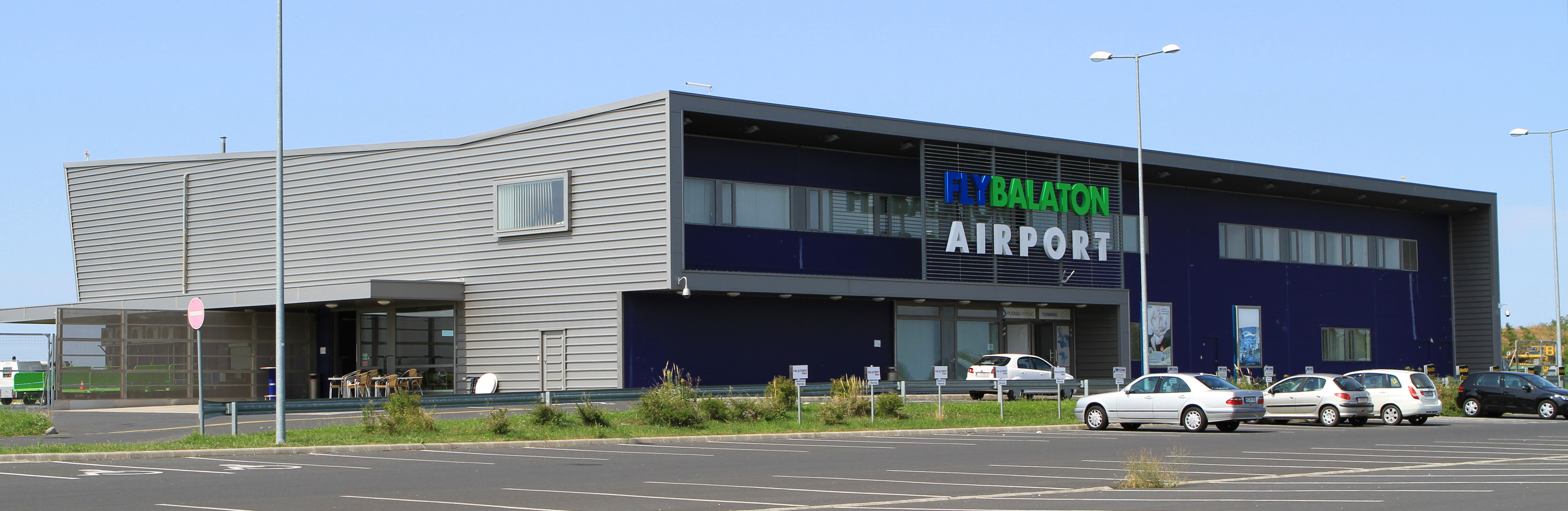 Airport FlyBalaton